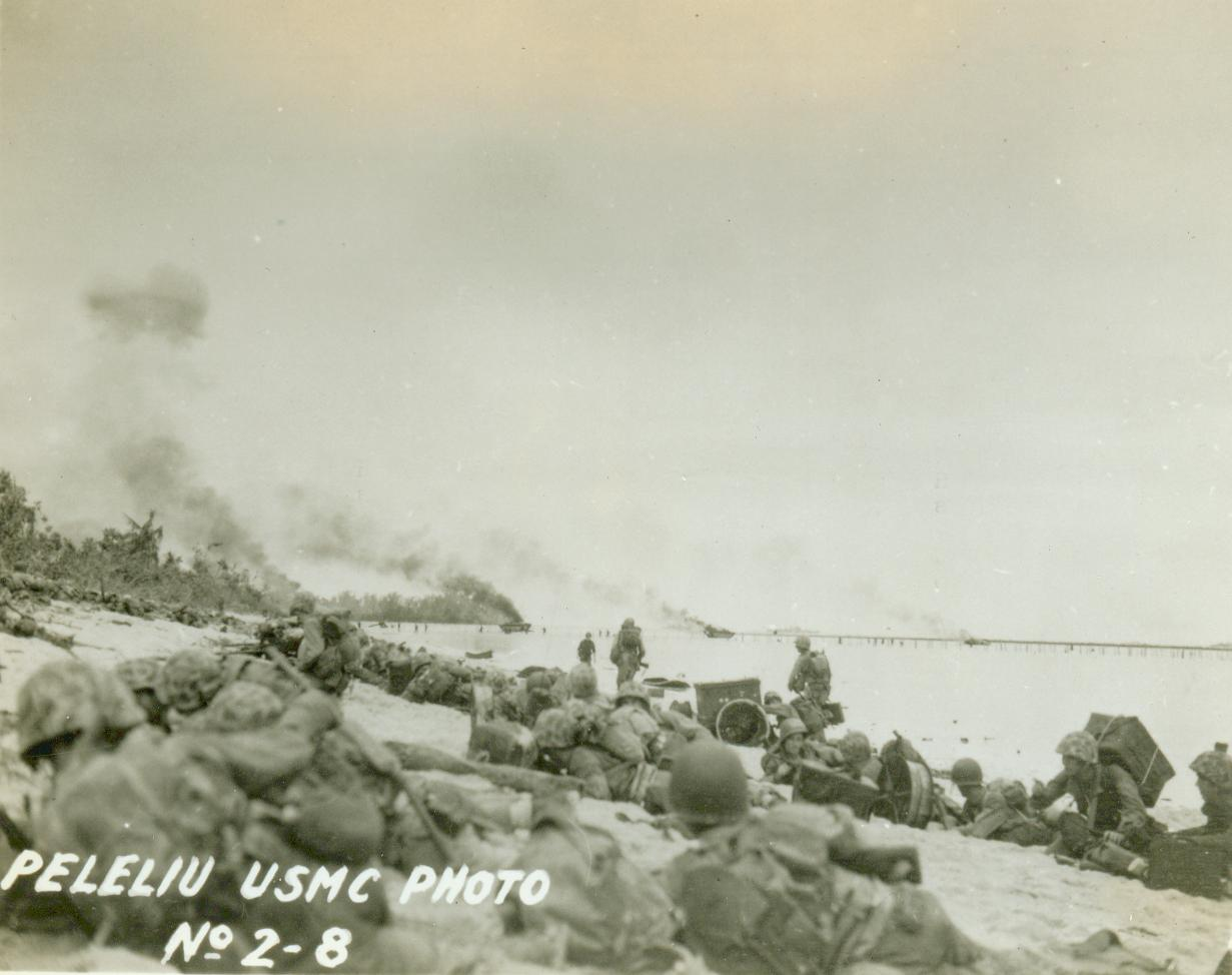 From the Frederick R. Findtner Collection (COLL/3890), Marine Corps Archives & Special Collections OFFICIAL USMC PHOTOGRAPH